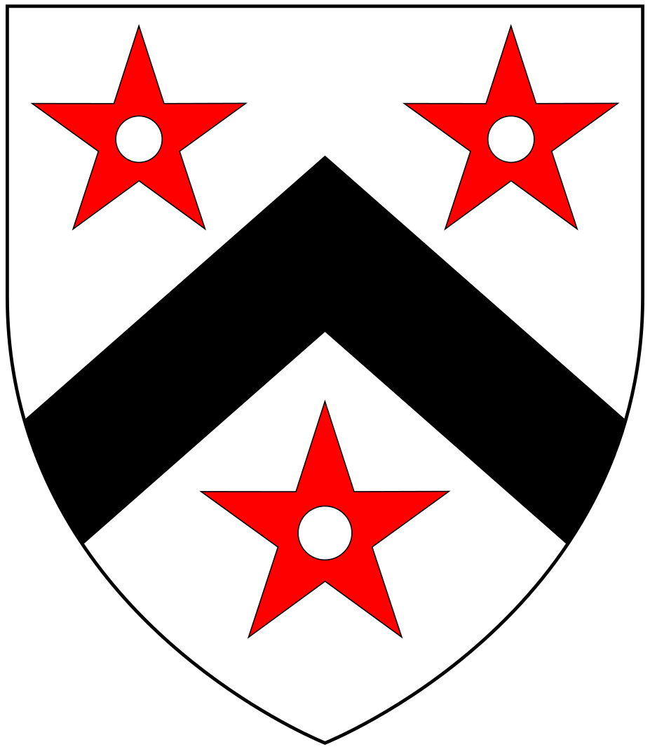 Arms of Davie of Creedy in the parish of Sandford, Devon: Argent, a chevron sable between three mullets pierced gules (Debrett's Peerage, 1968, Baronets, p.232)